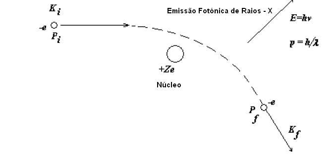 Desaceleração de um Electrão por um Núcleo Positivamente Carregado.